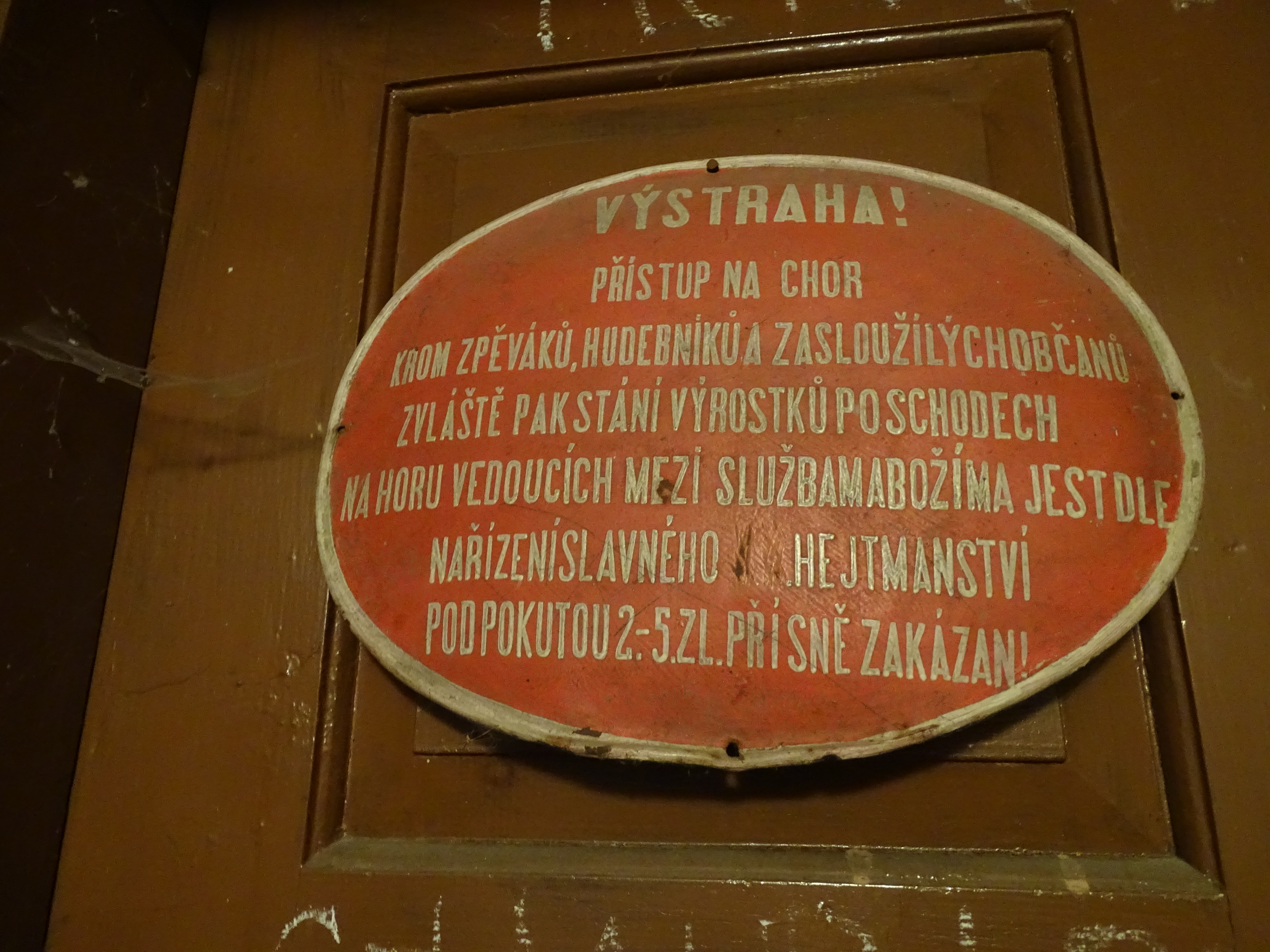 Háje nad Jizerou-Loukov, Semily District, Liberec Region, Czechia. A sign restricting access to the church choir loft.